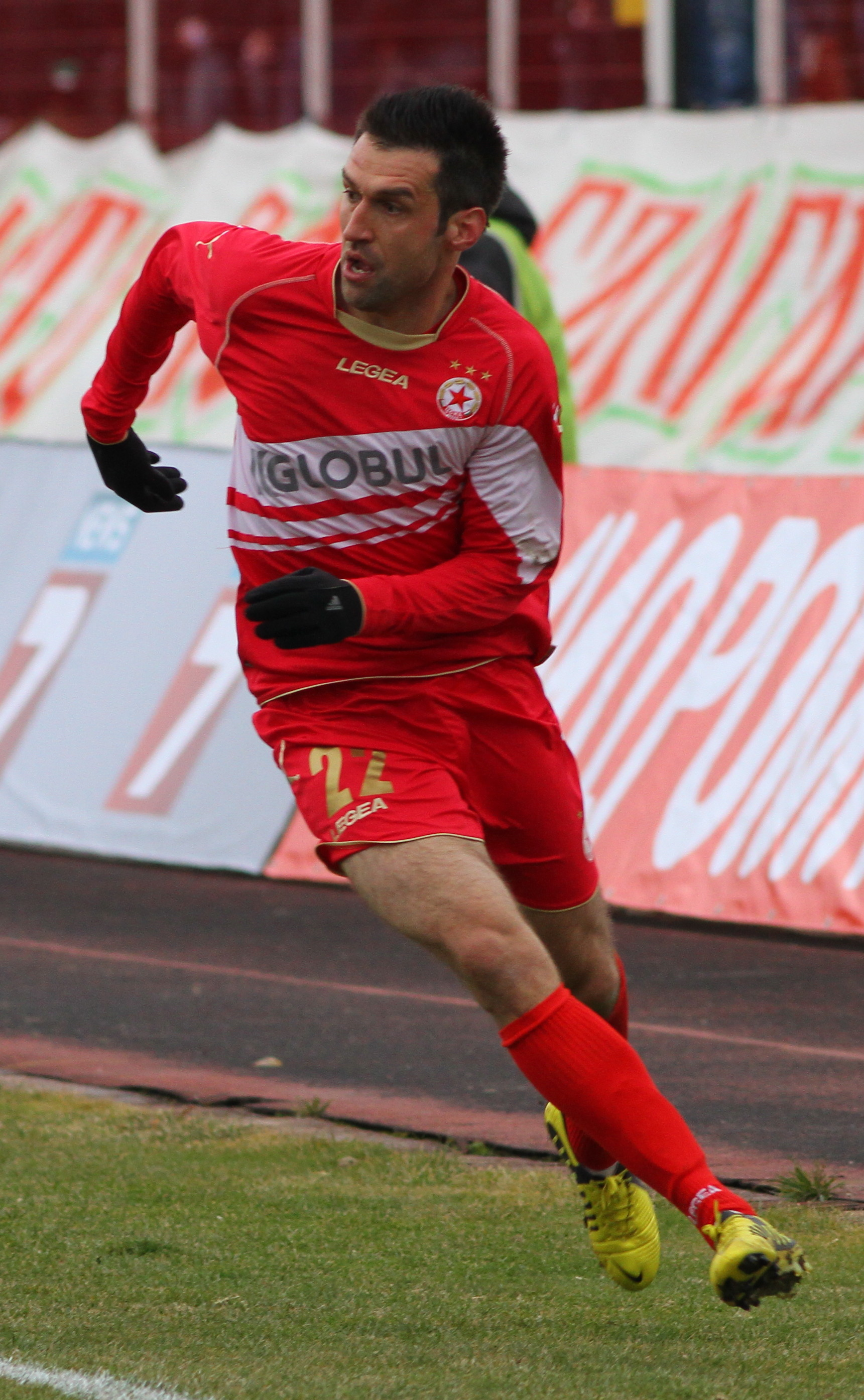 Martin Kamburov (born October 13, 1980) is a Bulgarian footballer who plays as a striker. He currently plays for CSKA Sofia